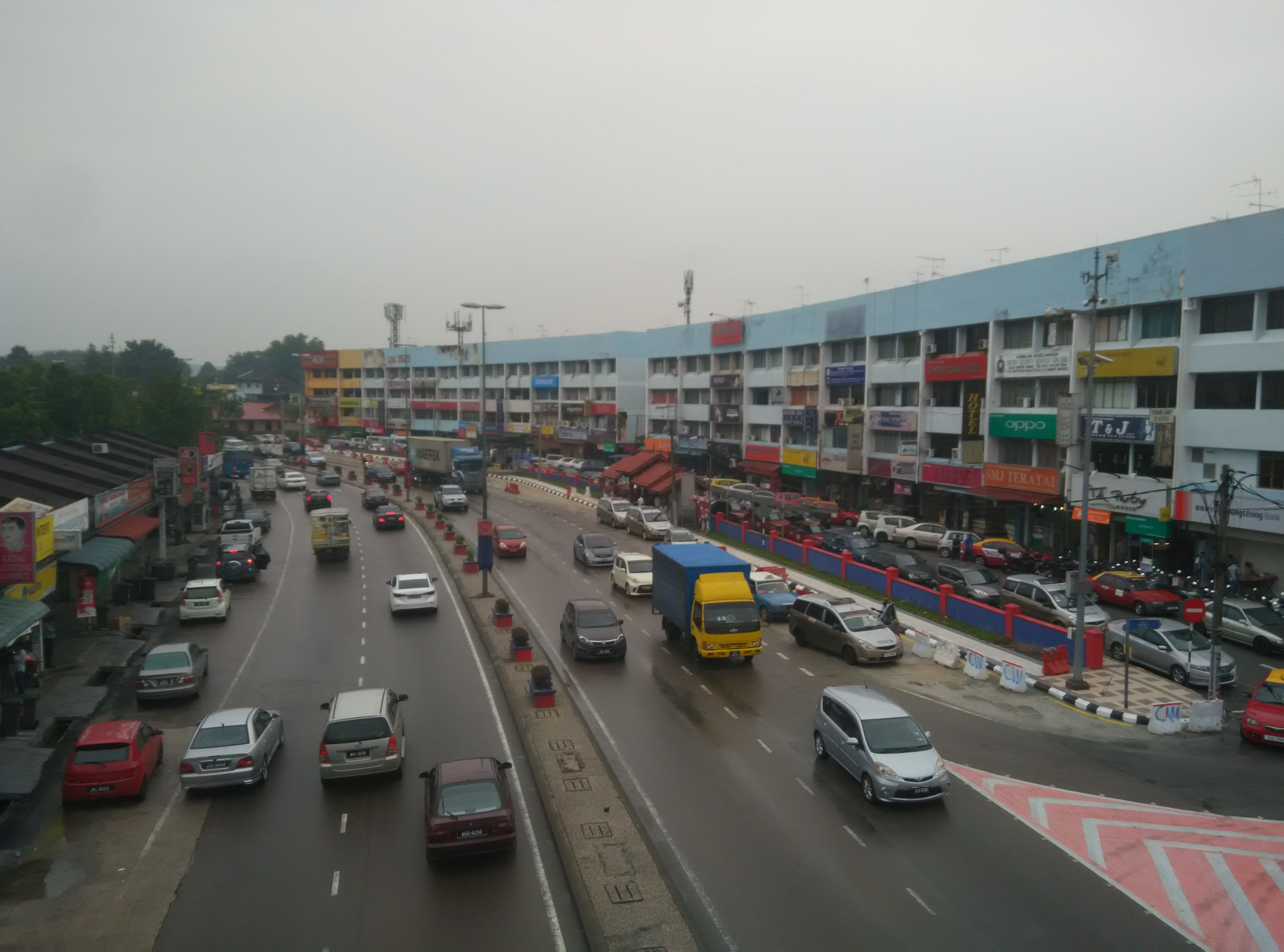 Senai Town 2017